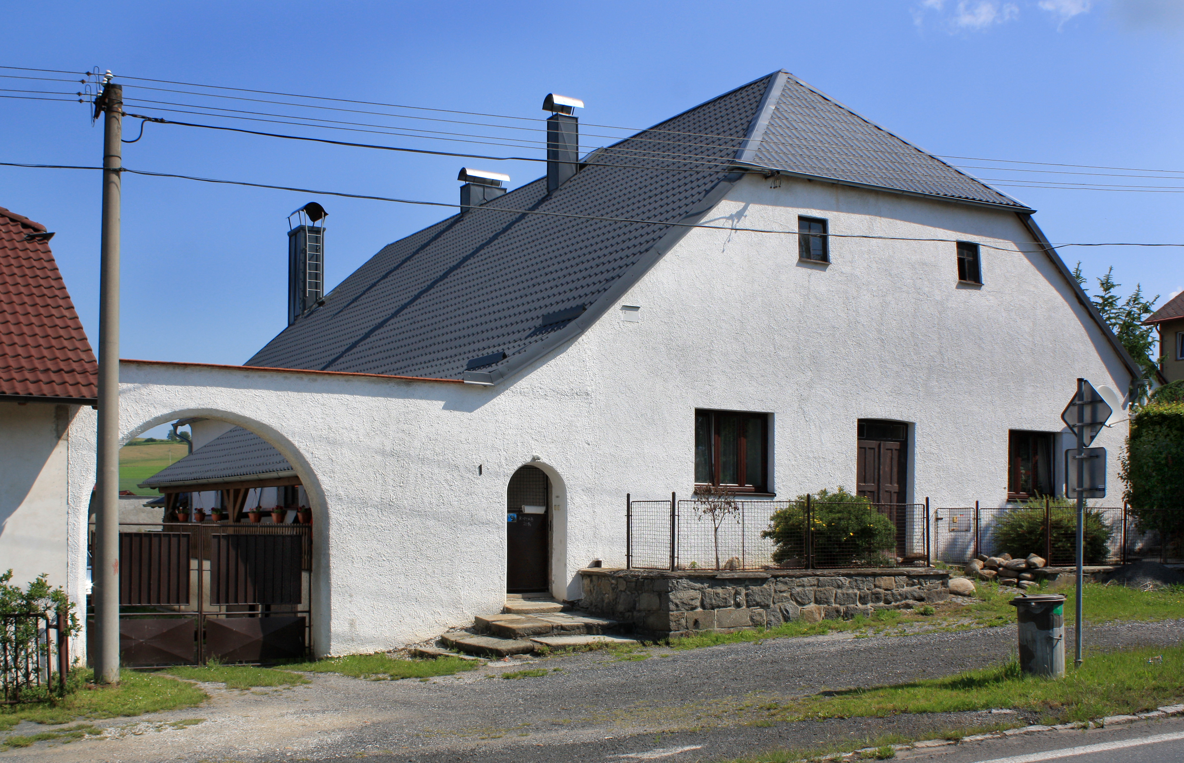 Old farm in Mochtín, Czech Republic